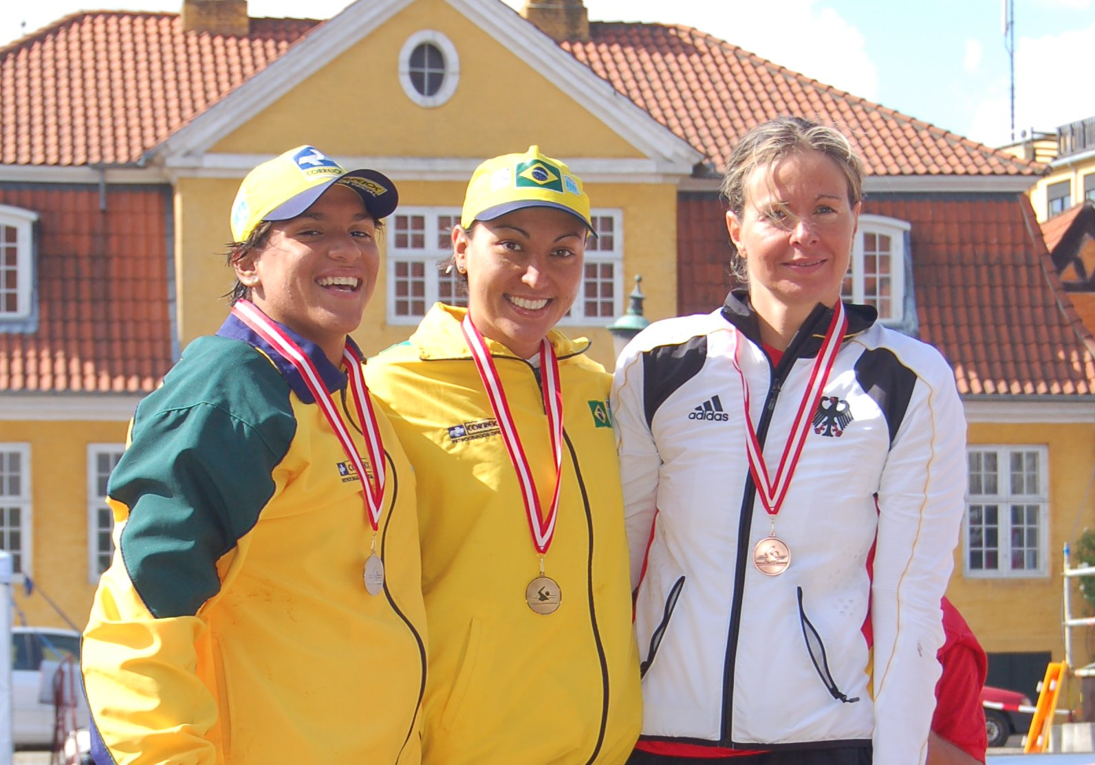 Medallists of the womens 10K marathon swimming world cup i Copenhagen, august 2009. Left: Ana Marcela Cunha, Brazil, middle: Poliana Okimoto, Brazil, right: Angela Maurer, Germany